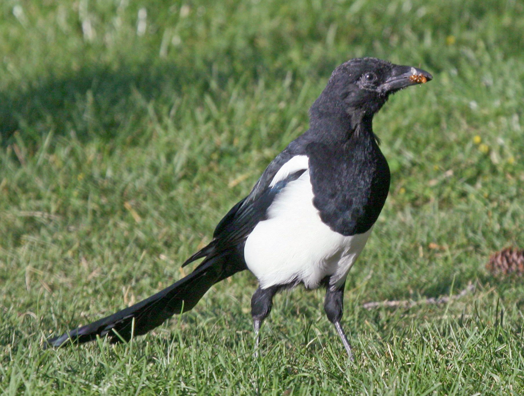 Black-billed Magpie (Pica hudsonia) at Yellowstone